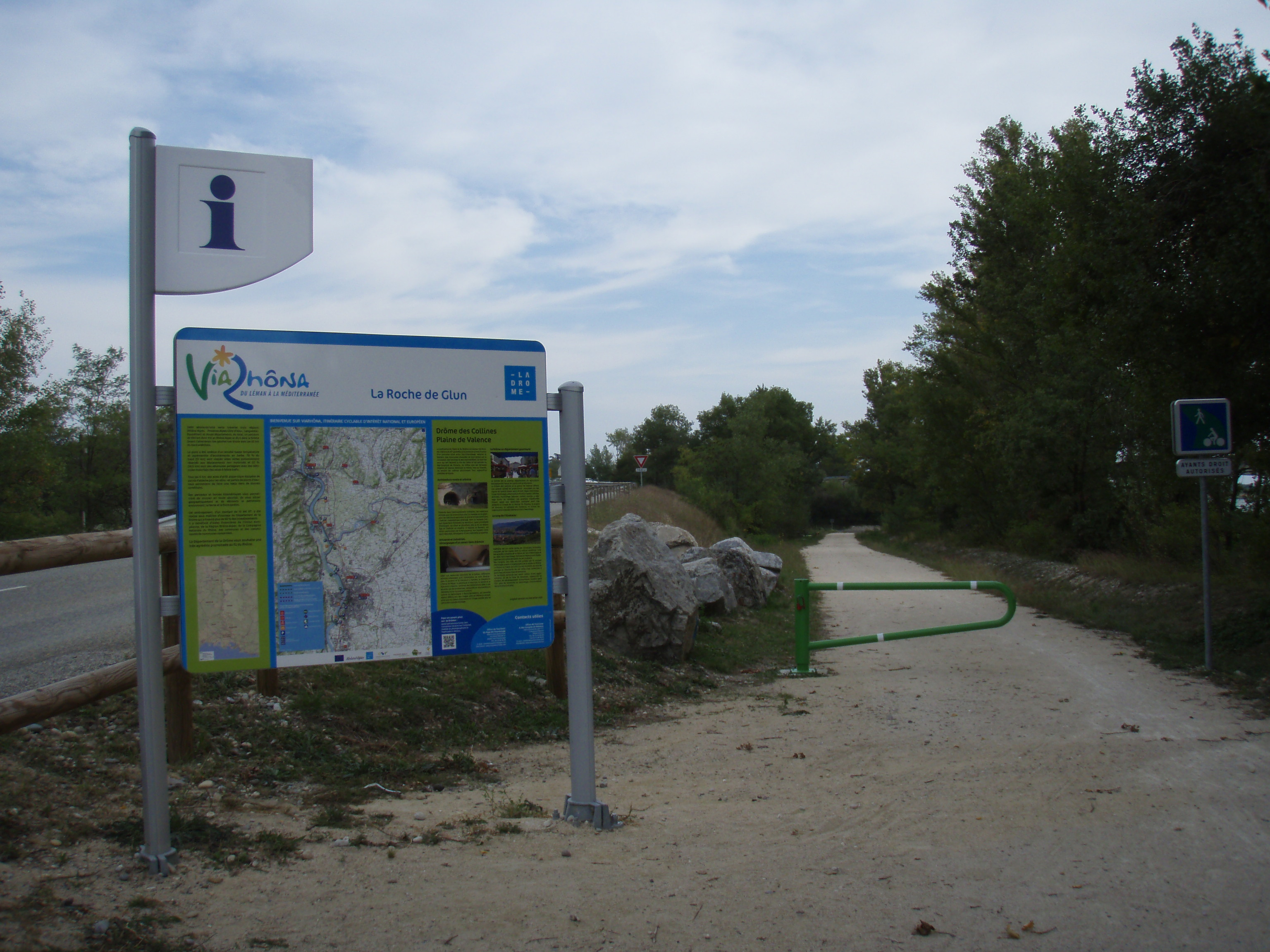 Road sign for ViaRhona cycle lane (from Lake Geneva to Mediterranean sea) near la Roche de Glun (Drôme - France)